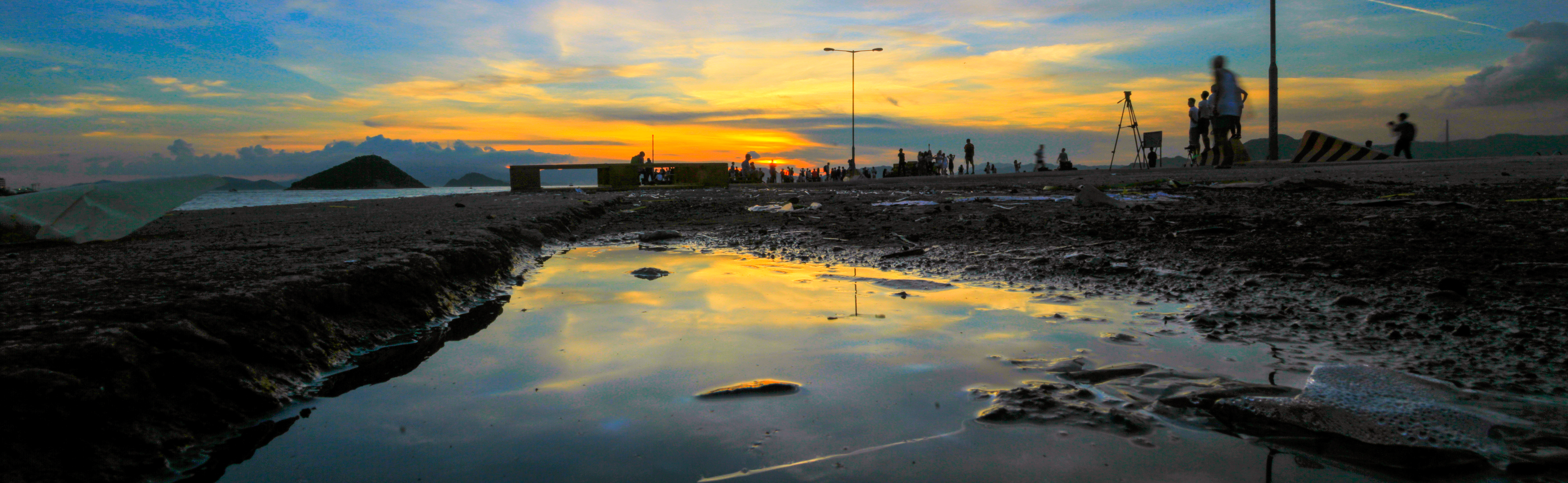 西環碼頭 Western District Public Cargo Working Area